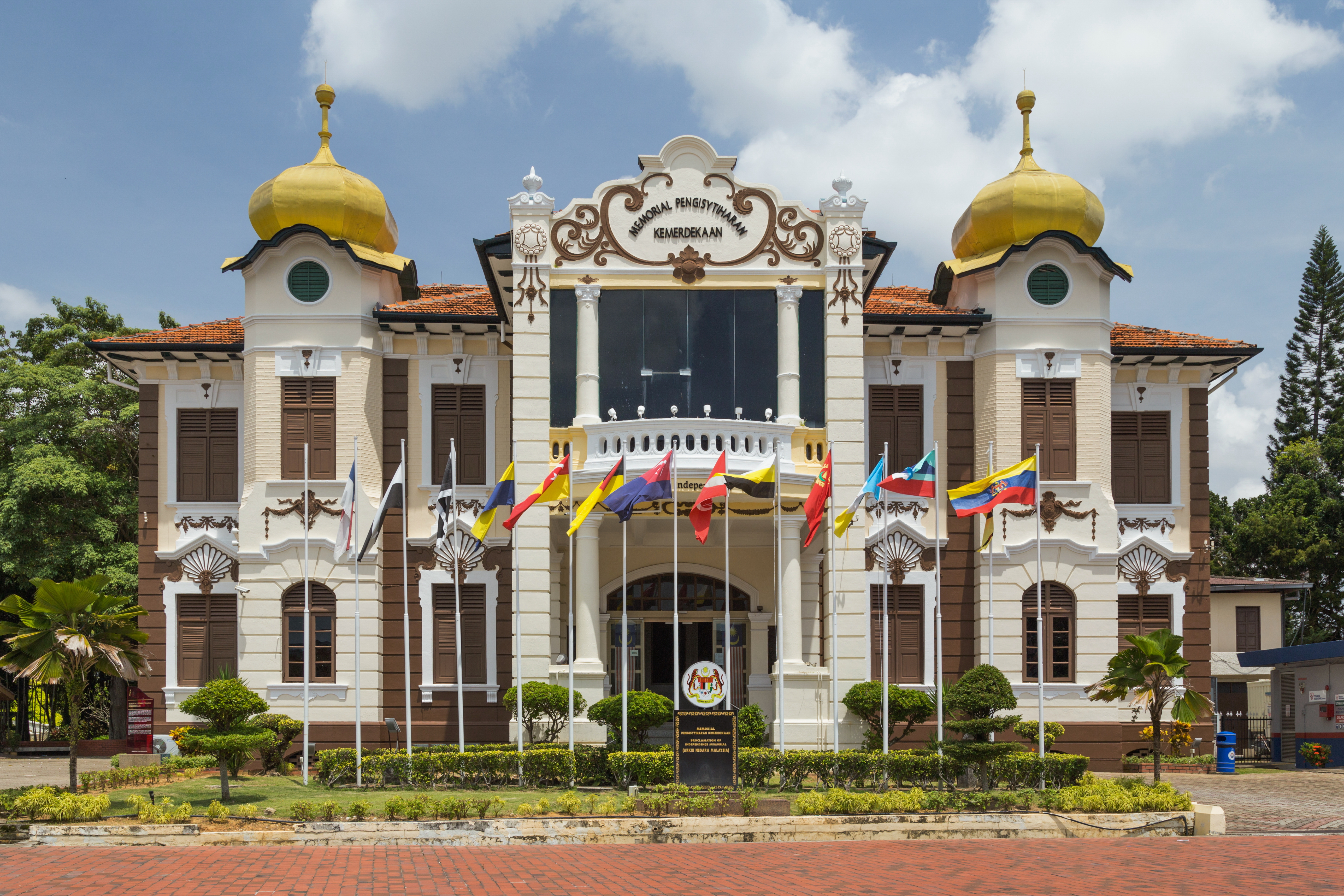 Proclamation of Independence Memorial. Malacca City, Malacca, Malaysia.